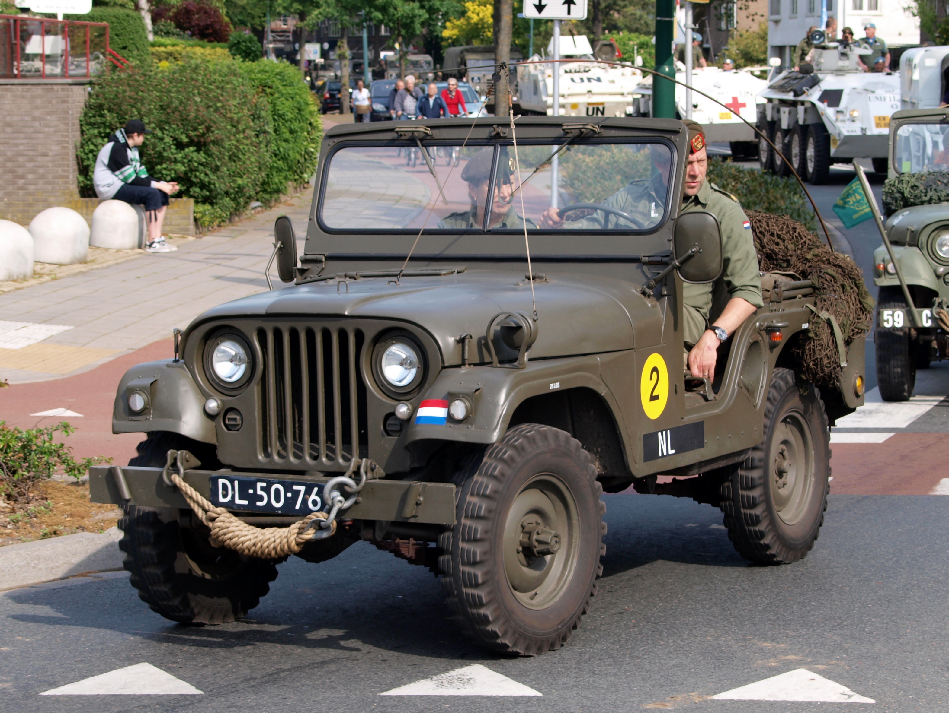 NEKAF, Bridgehead 2011